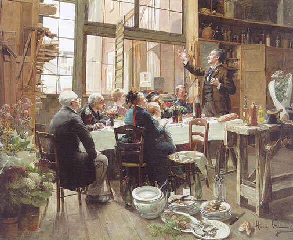 The Toast